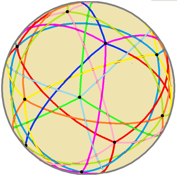 Spherical model of regular compound polyhedron, edges color each polyhedra